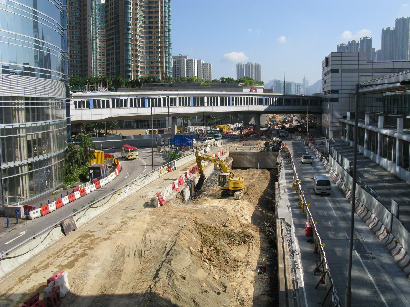 Construction Site of Kowloon Southern Link near Olympic Station